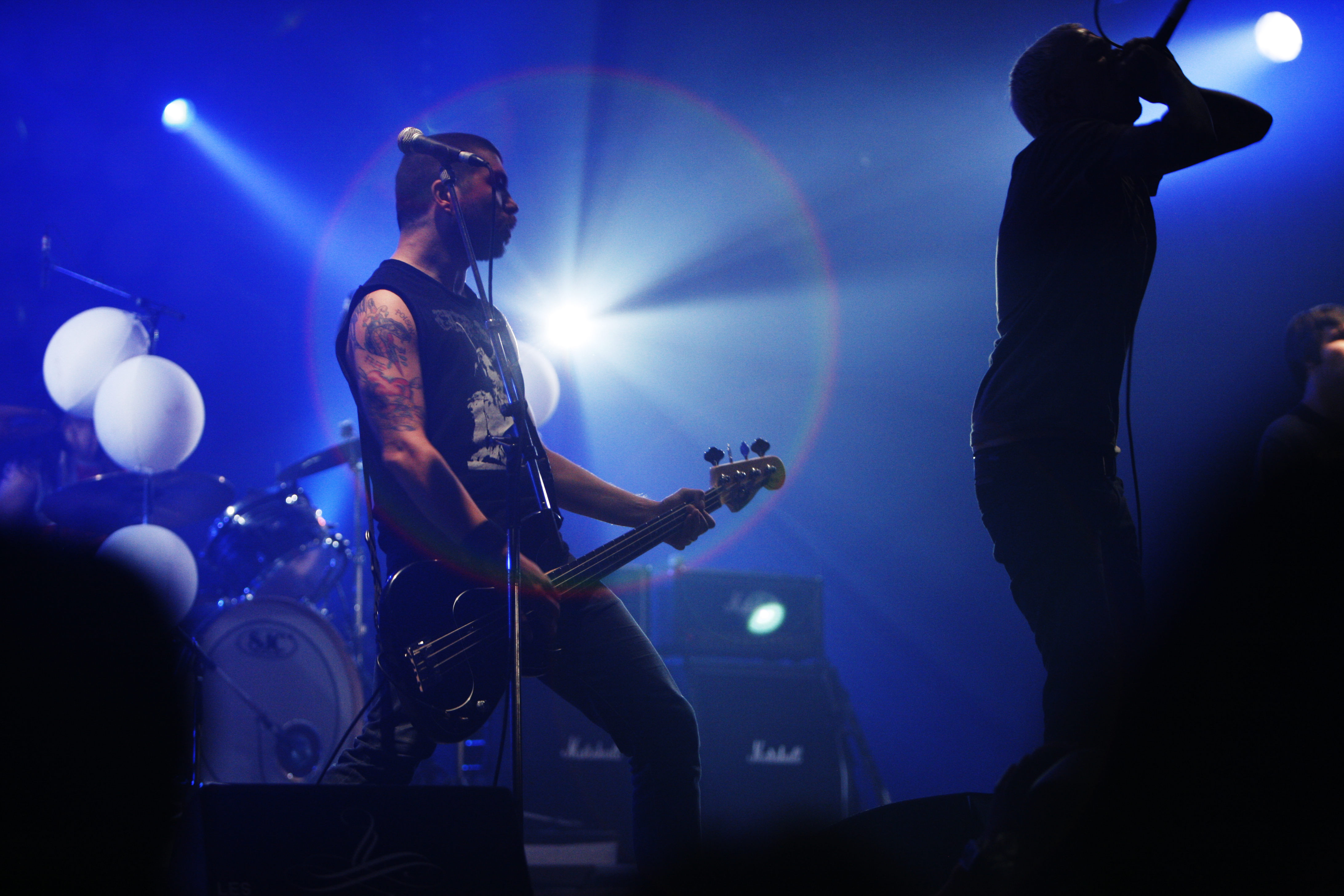 Converge at the Eurockéennes of 2007